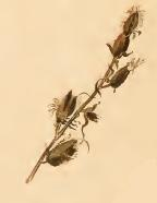 Stainton’s Natural History of the Tineina (1855–1873): Adela violella